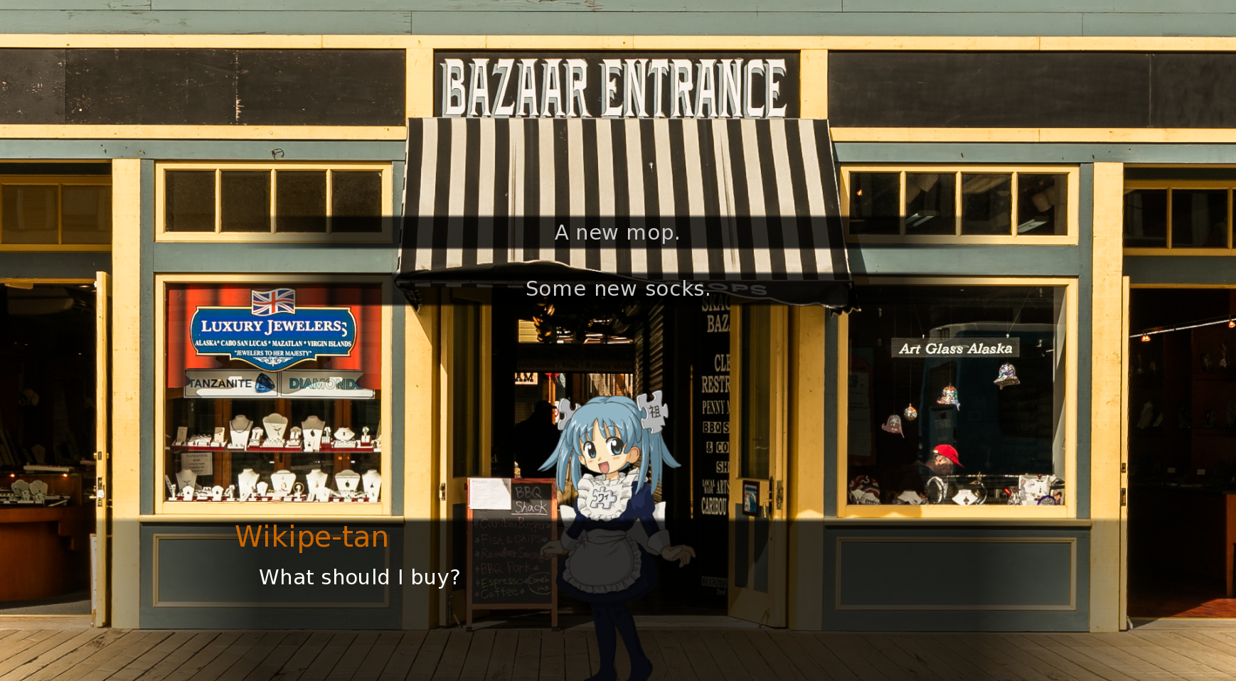 This image shows multiple choices in a fictional visual novel. While the text is my own, the character in the image is "Wikipe-tan full length.png", which is licensed under a GNU free documentation license and the Creative Commons Attribution-Share Alike 3.0 Unported license. The background image is "Centro histórico de Skagway, Alaska, Estados Unidos, 2017-08-18, DD 41.jpg", which is licensed under the Creative Commons Attribution-ShareAlike 4.0 International license. The visual novel itself was made in Ren'Py.